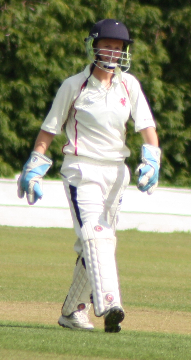 Sophie Le Marchand walks from one end of the wicket to the other between overs during a County Championship match between Somerset women and Nottinghamshire at North Perrott Cricket Club Ground in Somerset in July 2010.